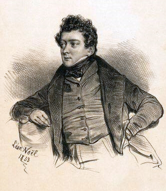 French actor and playwright Joseph-Isidore Samson (1793-1871) by Alphonse-Léon Noël (1807-1884)